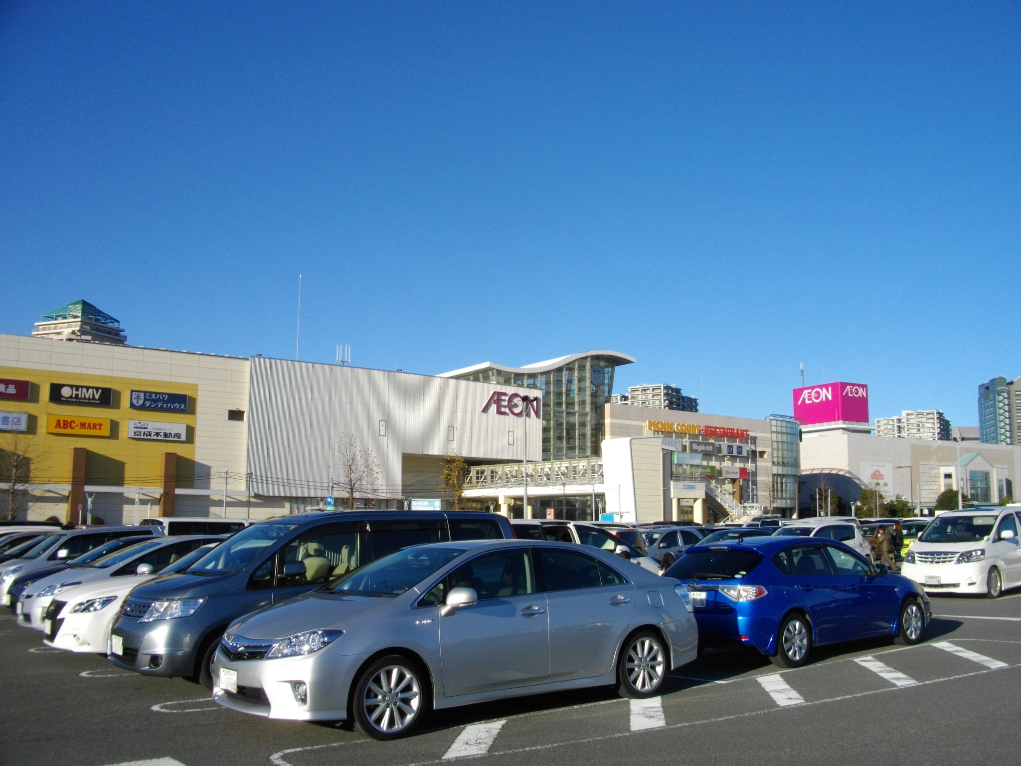 AEON Mall Chiba Newtown